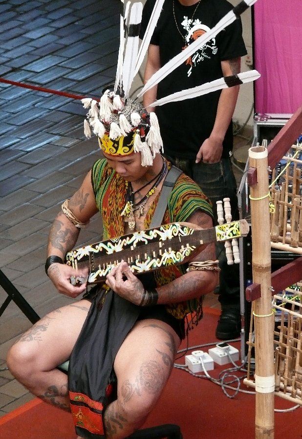 A man from Sarawak at the Central Market in Kuala Lumpur, Malaysia, playing the sapeh, a stringed instrument similar to a mandolin. He was there to promote the Sarawak Cultural Village and the Rainforest Music Festival.